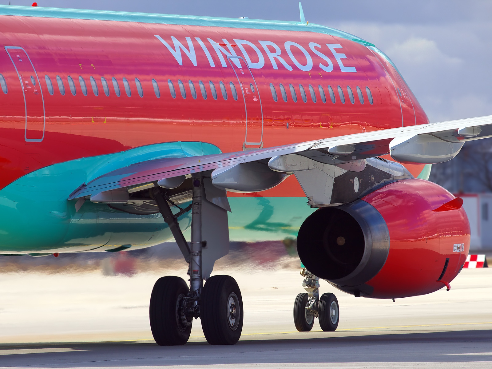 The latest addition to WindRose fleet